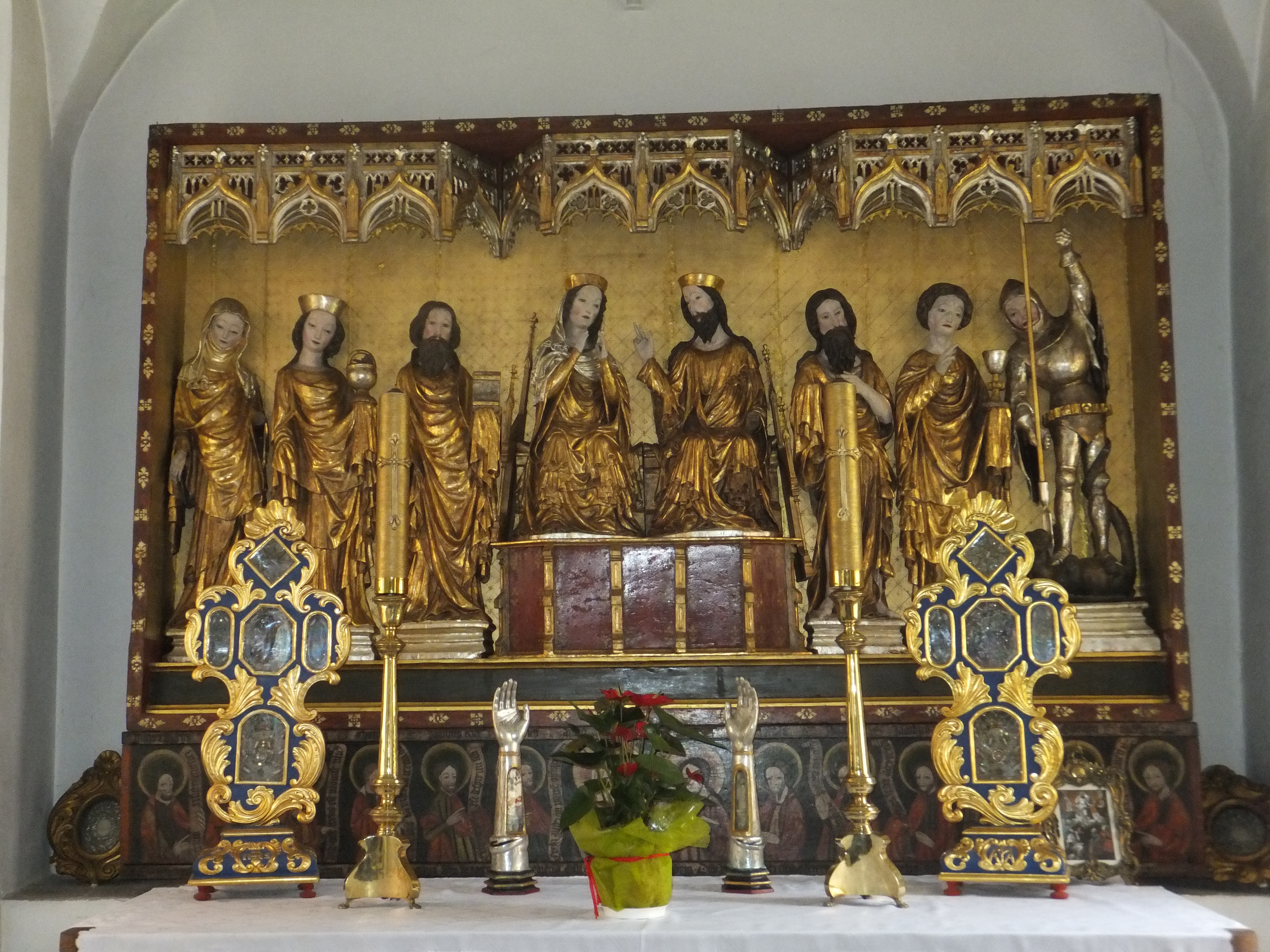 Gothic altar from 1444, in the collegiate church of the Assumption of the Blessed Virgin Mary in Kartuzy